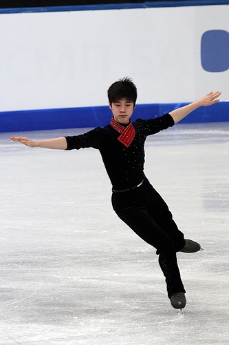 2012 World Junior MFS Zhang He